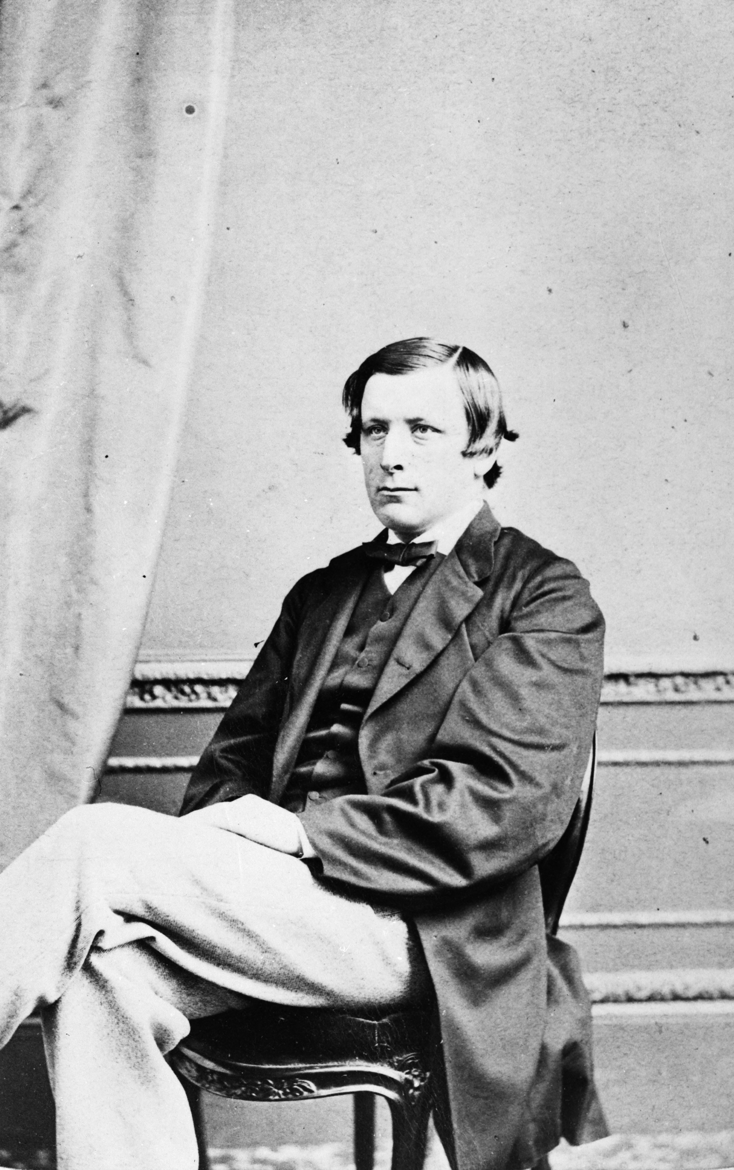 William Rolleston, circa 1870. Photographer unidentified.